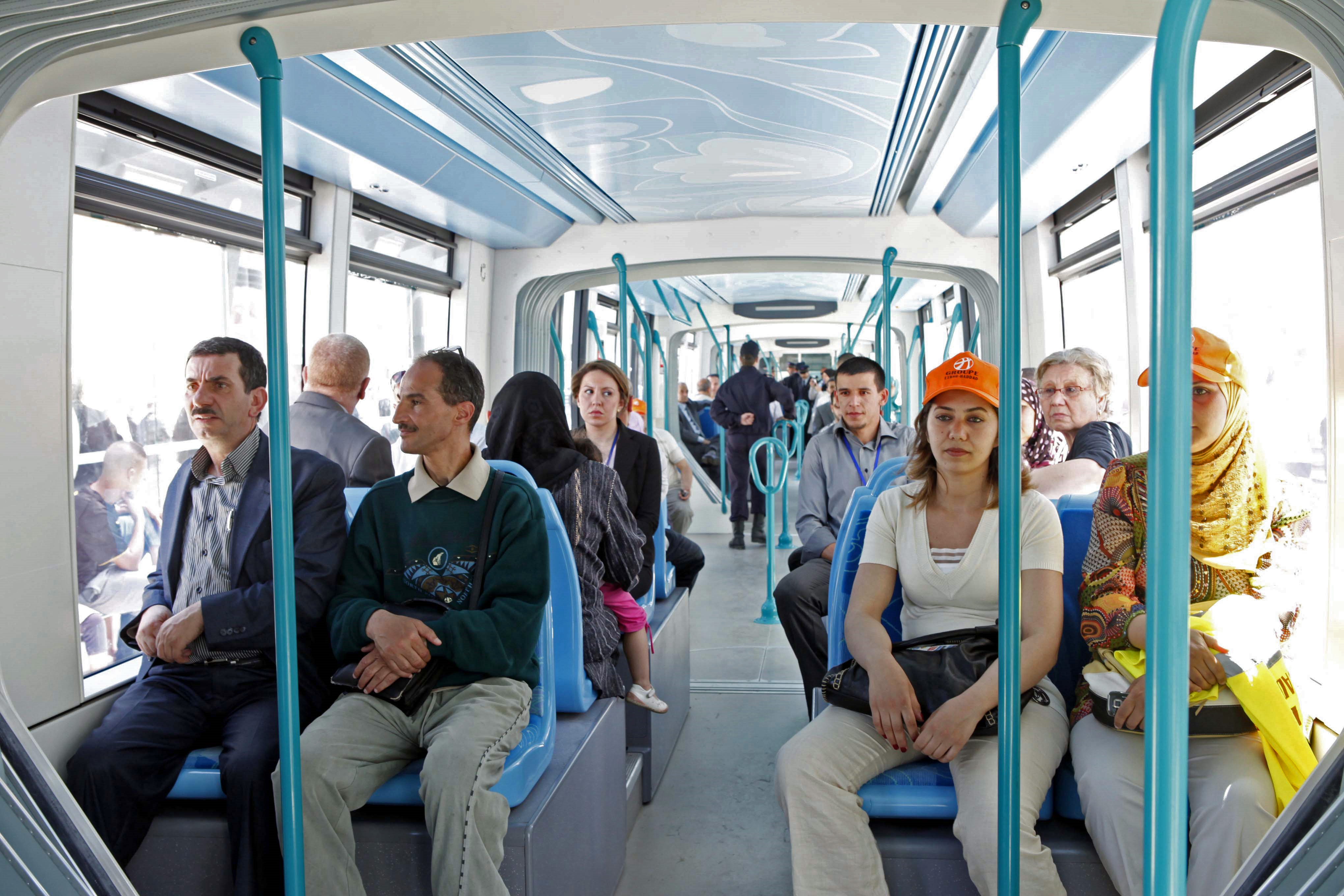 A new tramway network became operational in Algiers last week-end.